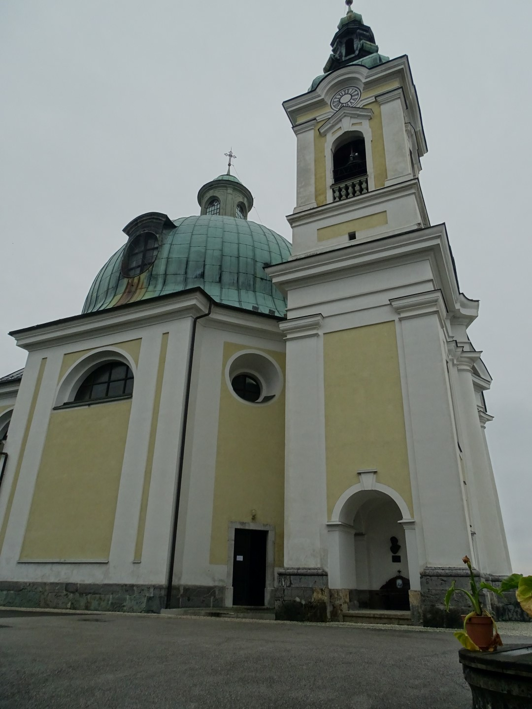 Church of St. Anna, Tunjice, Slovenia